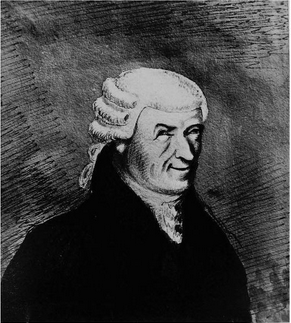 Drawing of Robert Forsyth, Advocate by Robert Scott Moncrieff